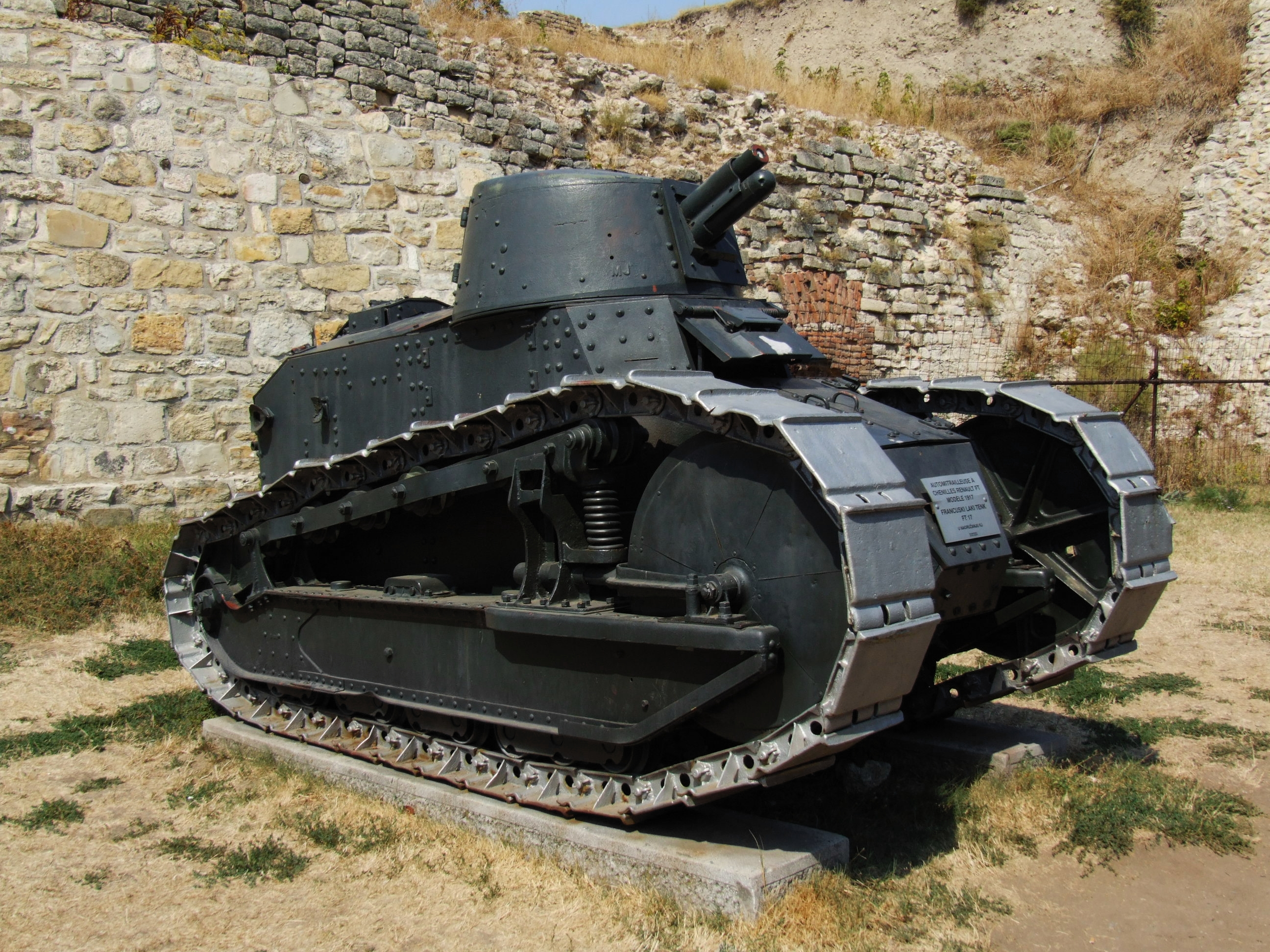 Belgrade Military Museum - Renault FT-17